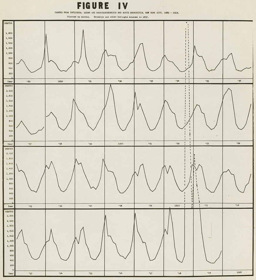 Deaths from influenza, lobar pneumonia and bronchopneumonia and acute bronchitis. New York City, 1889-1919. Plotted by months.